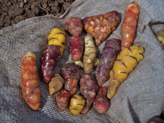 Oxalis tuberosa tubers in Peru